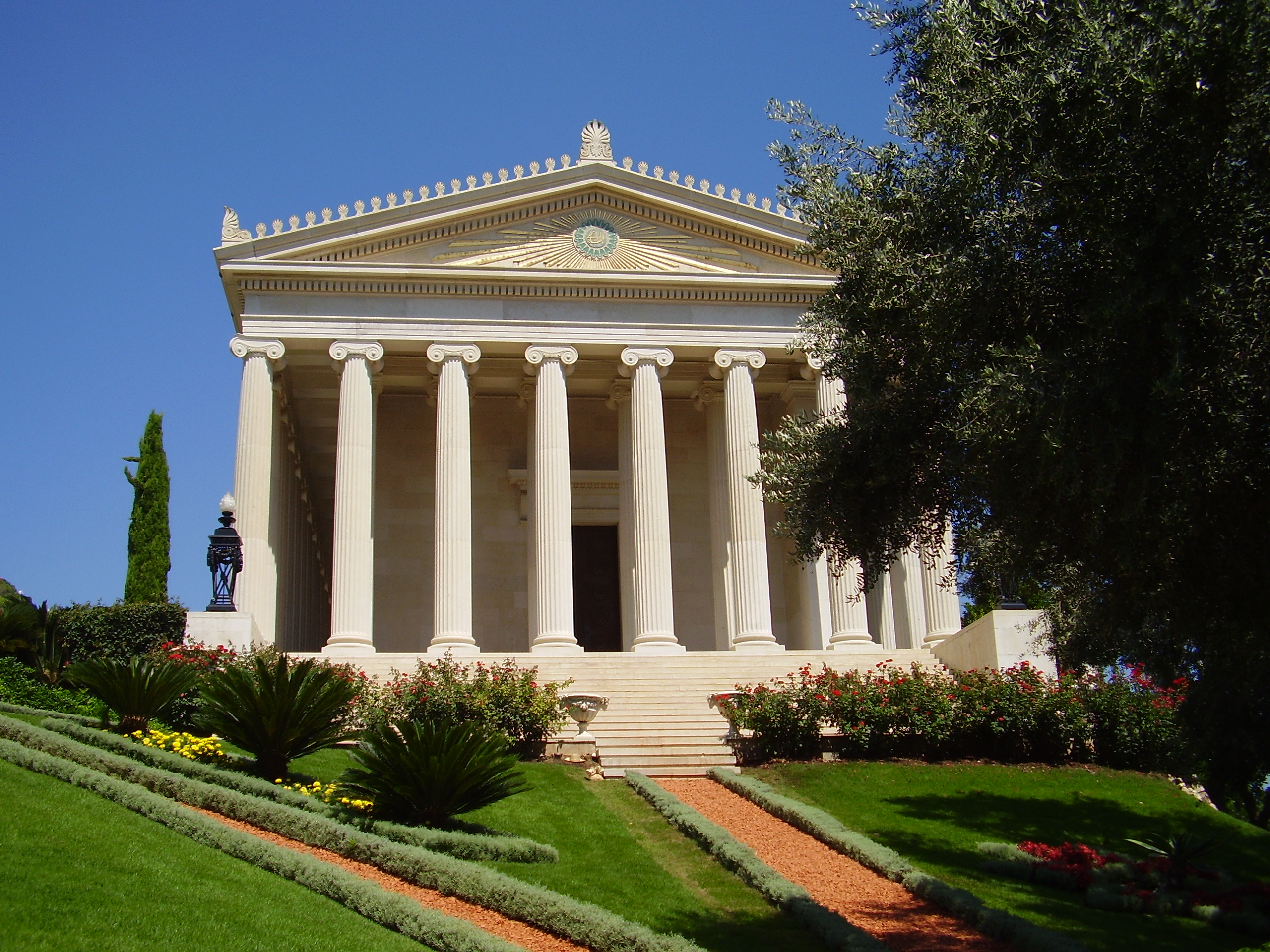 This is the International Bahá'í Archives Building on Mount Carmel, Haifa, Israel. It is part of the Bahá'í World Centre.